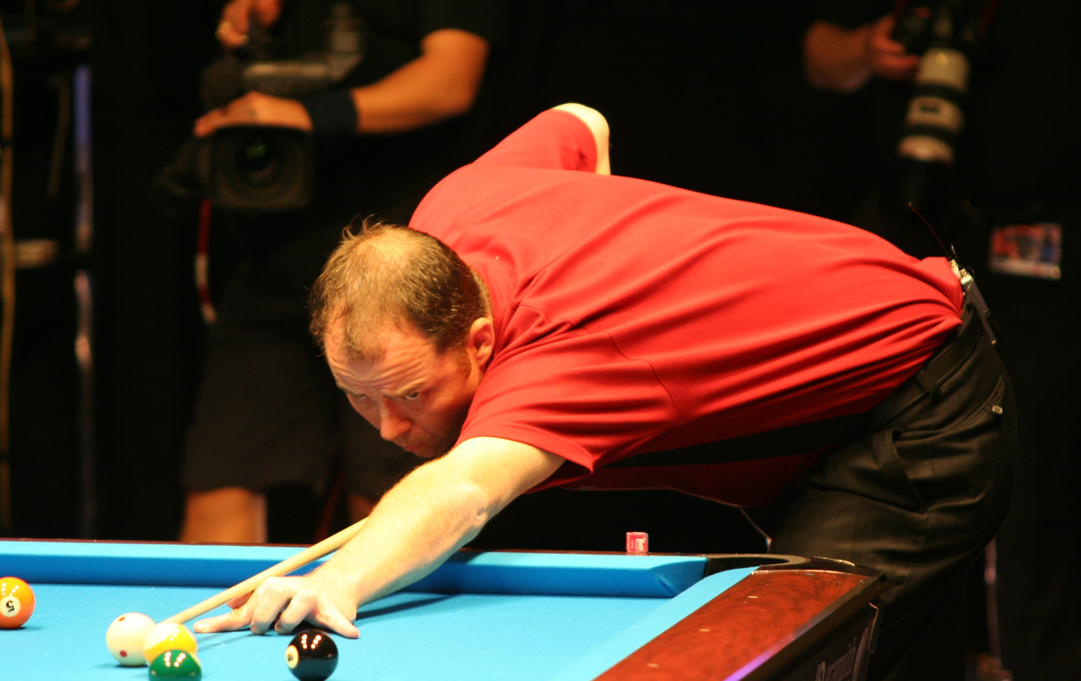 US-american pool player Jeremy Jones at the Mosconi Cup 2008 in Malta.